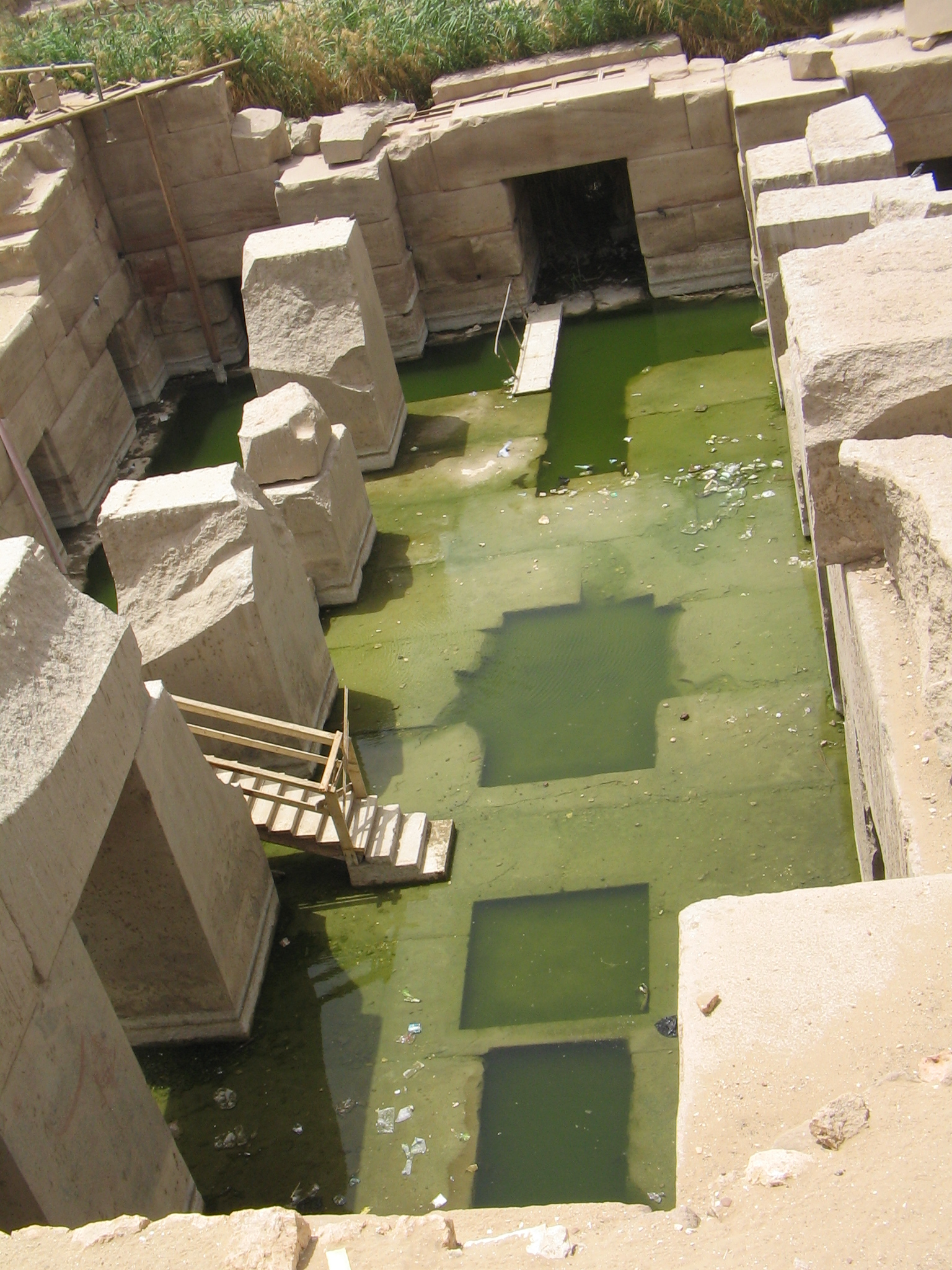 Temple of Seti I at Abydos